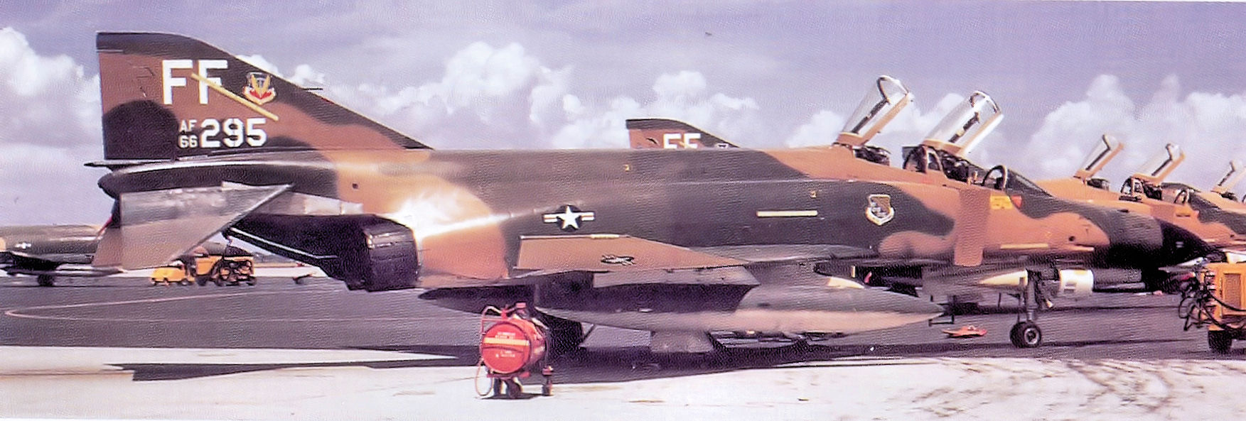 94th Tactical Fighter Squadron MacDill AFB, August 1972. McDonnell F-4E-31-MC Phantom 66-0295 in foreground.